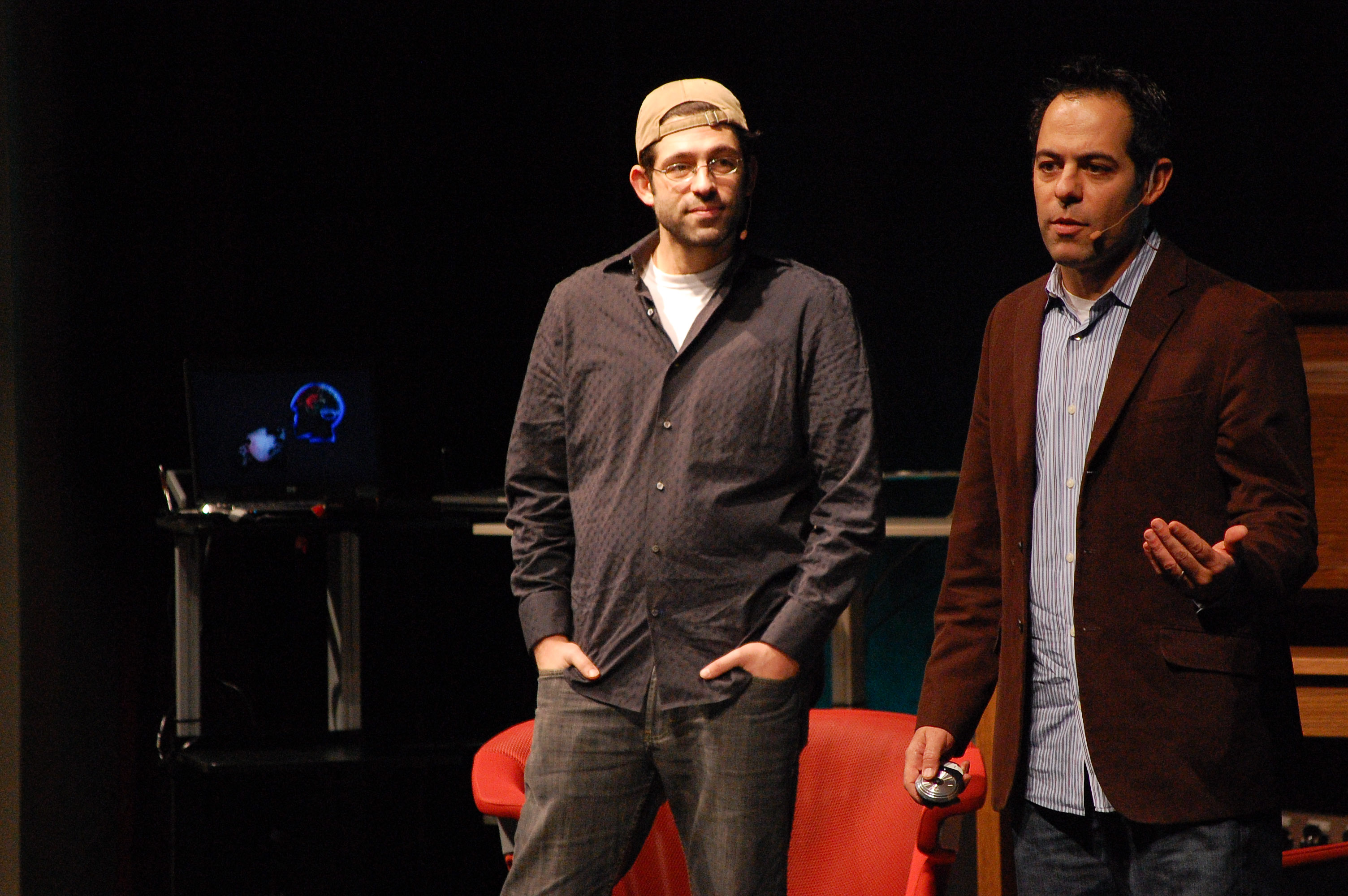 Evan & Greg Spiridellis of Jib Jab, at EG 2010